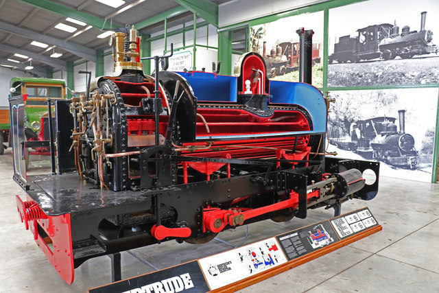 Statfold Barn Railway - Gertrude is not a runner: This locomotive was built by Hunslet of Leeds in 1909 as No. 995 and used at Penrhyn Quarry in North Wales. It was exported to Canada and ended up on display at Toronto's Centennial Centre, now the Ontario Science Centre. This side has been sectioned so it will never run again. It has recently been repatriated as it had been taken off display with no plans to redisplay it and the son of Statfold's owner asked if was available. This was the last of several Welsh quarry locomotives exported to North America to be returned to the UK. Walking round from the other side is quite startling if you are not expecting it! The other side is seen here: Statfold Barn Railway - Gertrude, looks like a runner